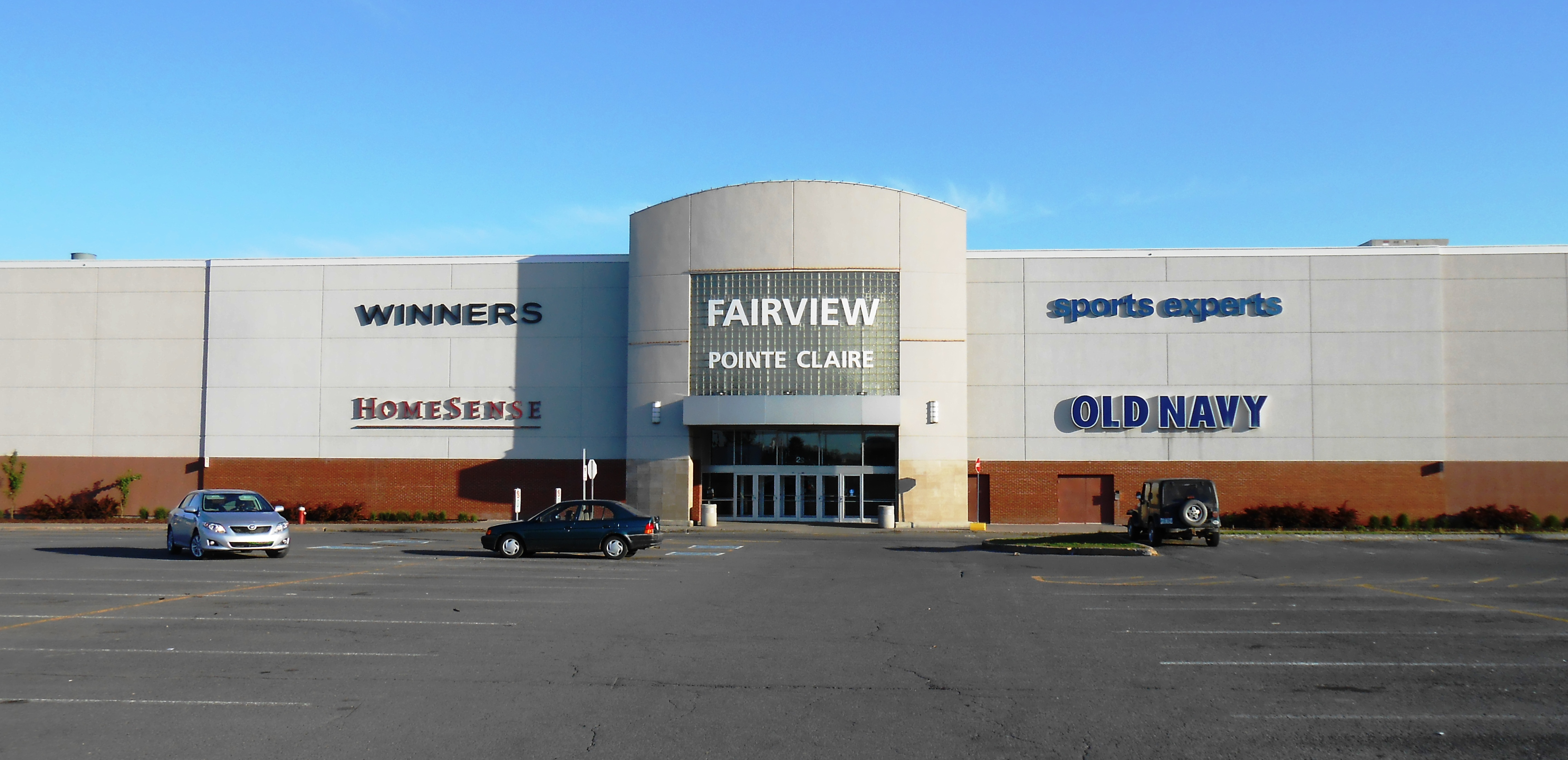 Fairview Pointe-Claire, also called Fairview Centre, is one of the biggest super regional shopping malls on the island of Montreal with about 1,000,000 square feet (92,900 m2) spread on two levels of shopping space. It is located in the city of Pointe-Claire at the intersection of Trans-Canada Highway and Saint-Jean Boulevard.